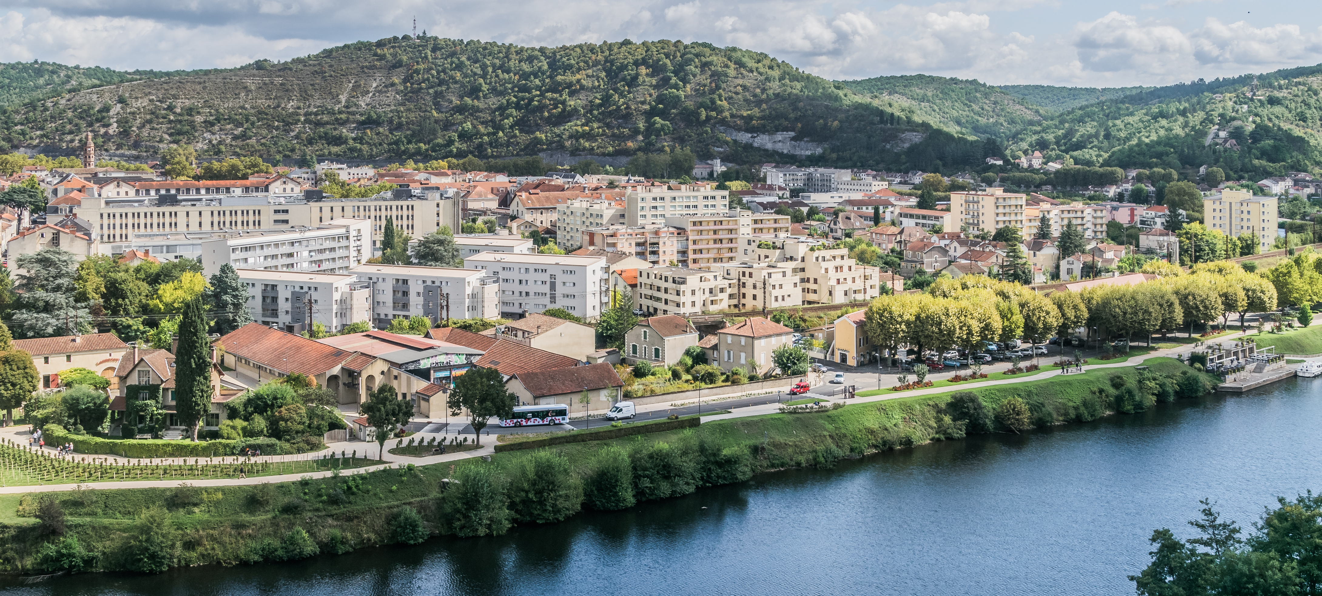 View of Cahors, Lot, France